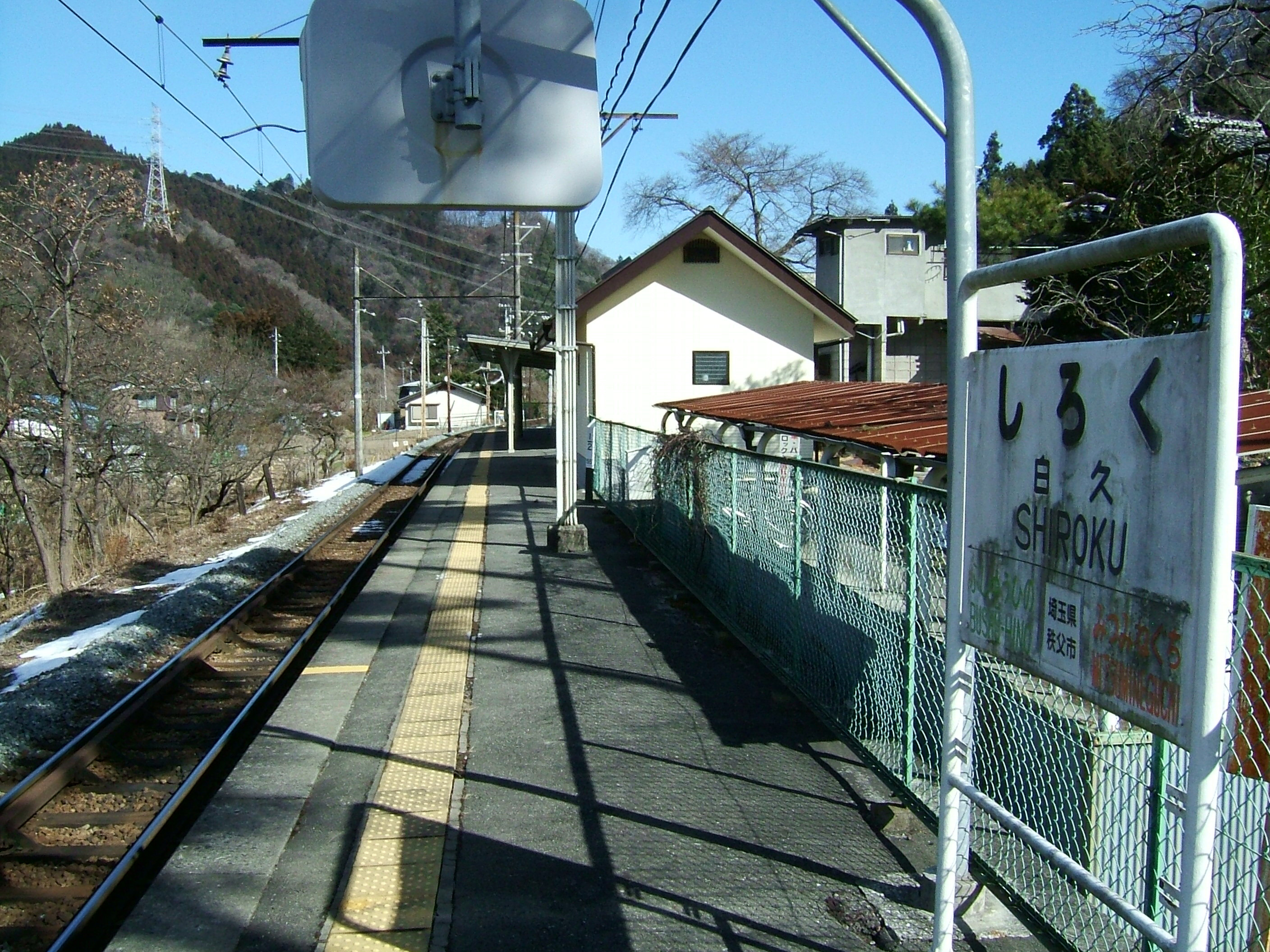 The platform at Shiroku Station on the Chichibu Main Line